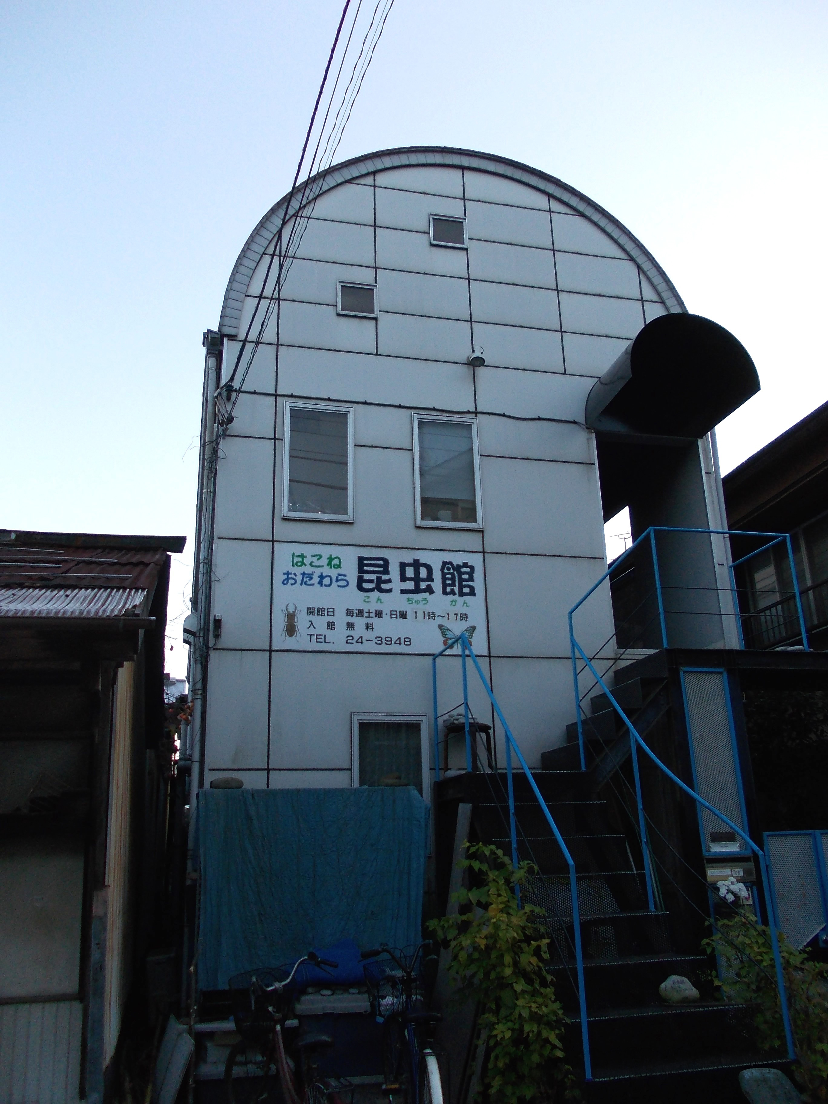 Hakone Odawara Insectarium